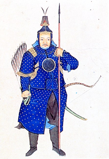 Fengxing'e / Fengsengge (丰升额 feng sheng e), an officer of the Qing Army during Qianlong's era